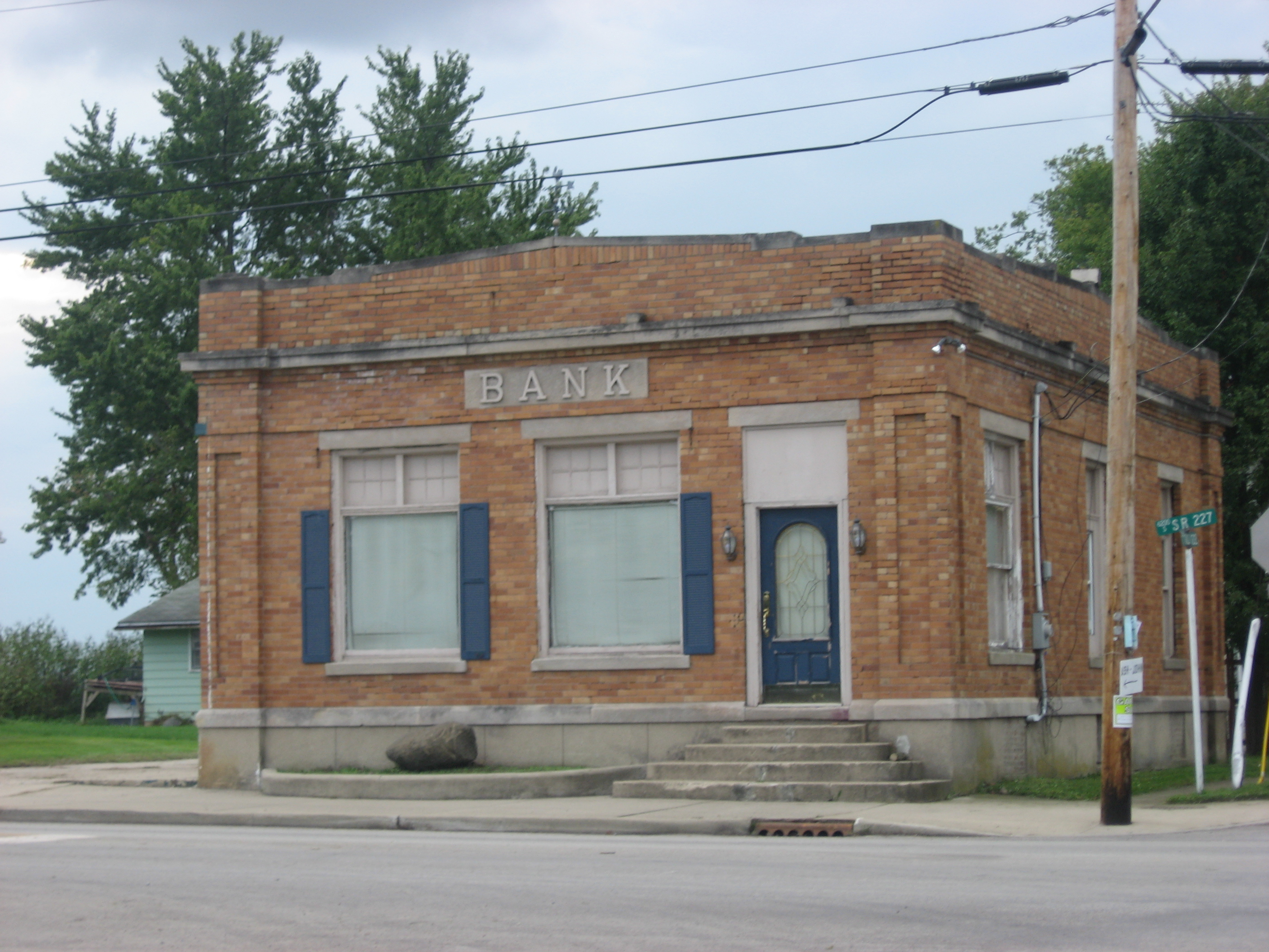 Front and northern side of a former bank on the southwestern corner of the junction of Salem (State Road 227) and Main Streets at the center of Boston, Indiana, United States.